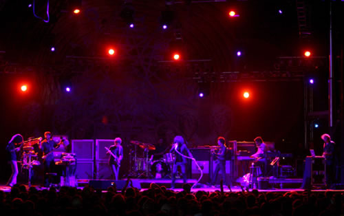 The Mars Volta on stage at the Vegoose Festival.